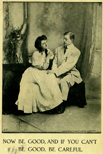 Postcard of couple, with caption probably somewhat risque for the time. NOW BE GOOD, AND IF YOU CAN'T BE GOOD, BE CAREFUL.